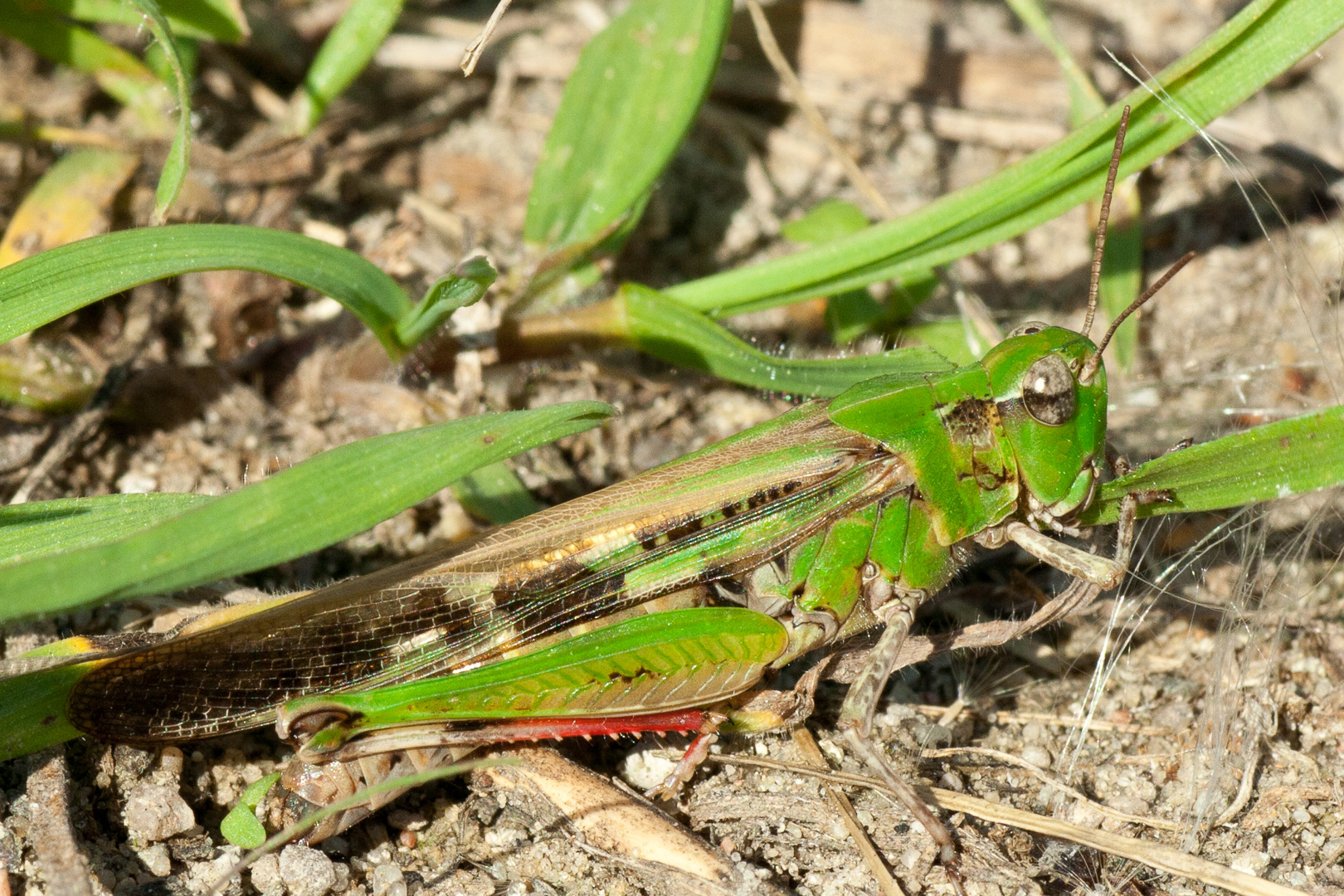 Aiolopus thalassinus feeding on grass. Truskaw near Warsaw, Poland.